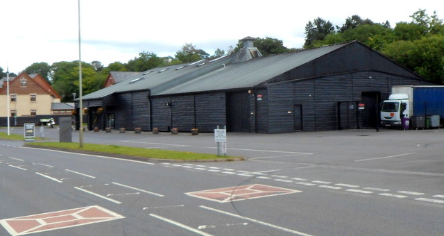 Penderyn Distillery and Visitor Centre. Located in the village of Penderyn, the distillery is the only one in Wales and the first to distil whisky spirit (legally!) in Wales for more than a century. Its best-known product is Penderyn Single Malt Welsh Whisky.